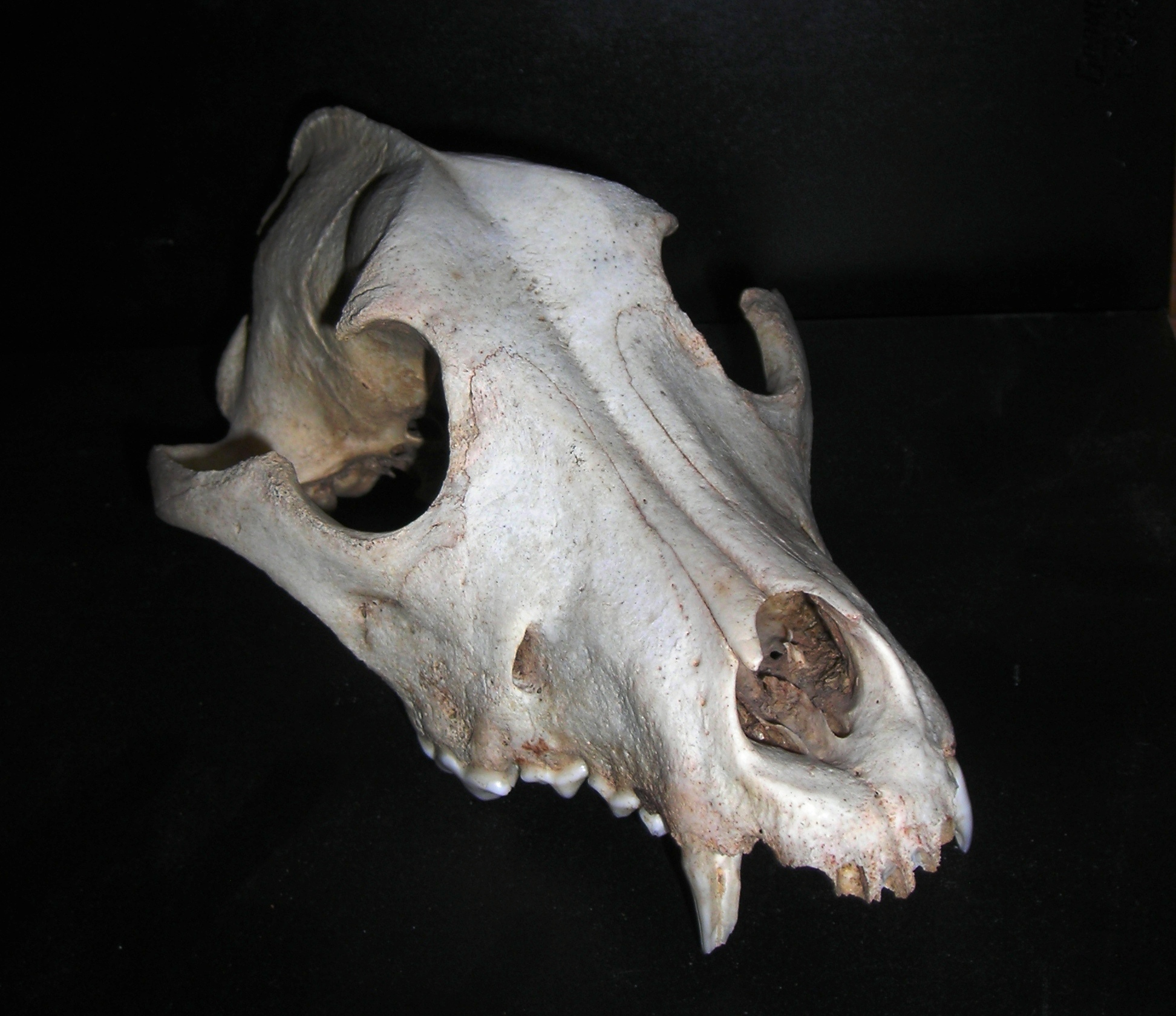 Photograph of dog skull